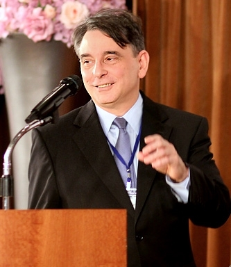 Taiwan will host 50 U.S. Fulbright grantees, 27 of whom will serve as English Teaching Assistants at public elementary and junior high schools in Yilan and Kaohsiung.